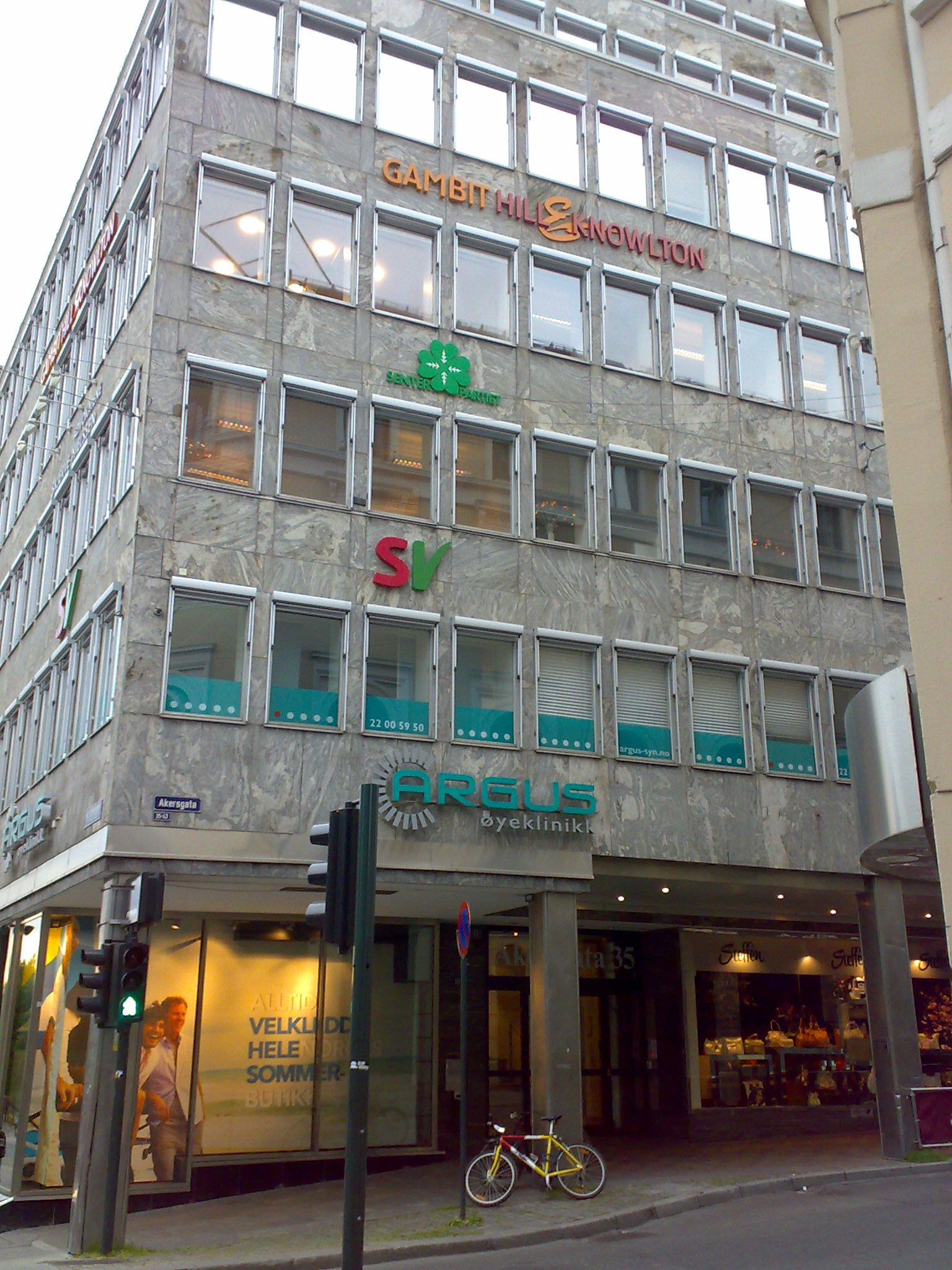 Hill & Knowlton office in Oslo, Norway